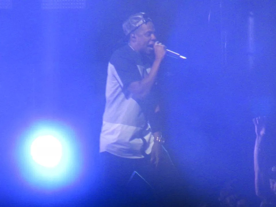 Jay-Z performing at Safeco Field in Seattle, Washington during his co-headlining "On the Run Tour" with Beyoncé, on July 31, 2014.